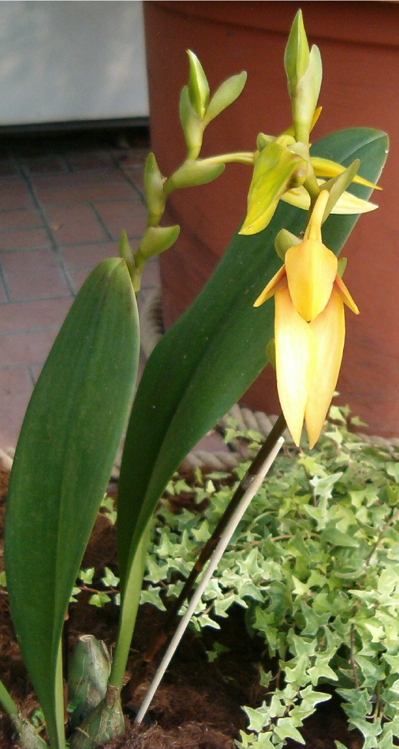 Bulbophyllum carunculatum, Habitus and Flowers Location: Botanical Gardens Berlin - Orchid Exhibition